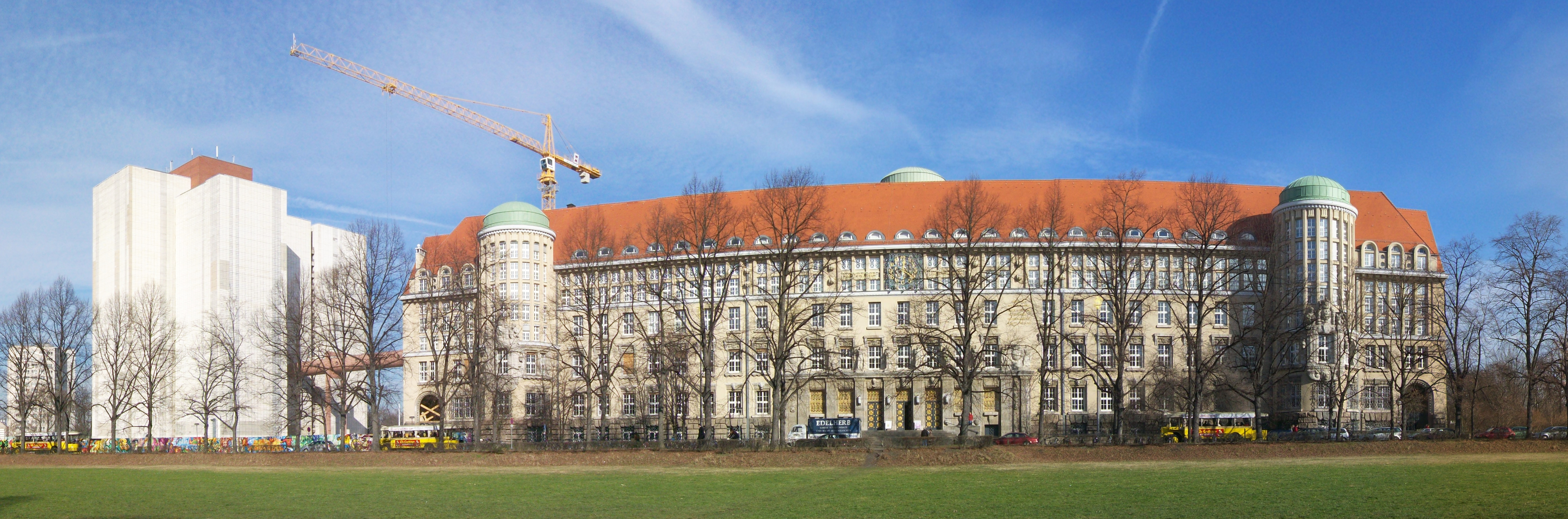 A panorama picture of the German Library in Leipzig. Taken in February 2008.